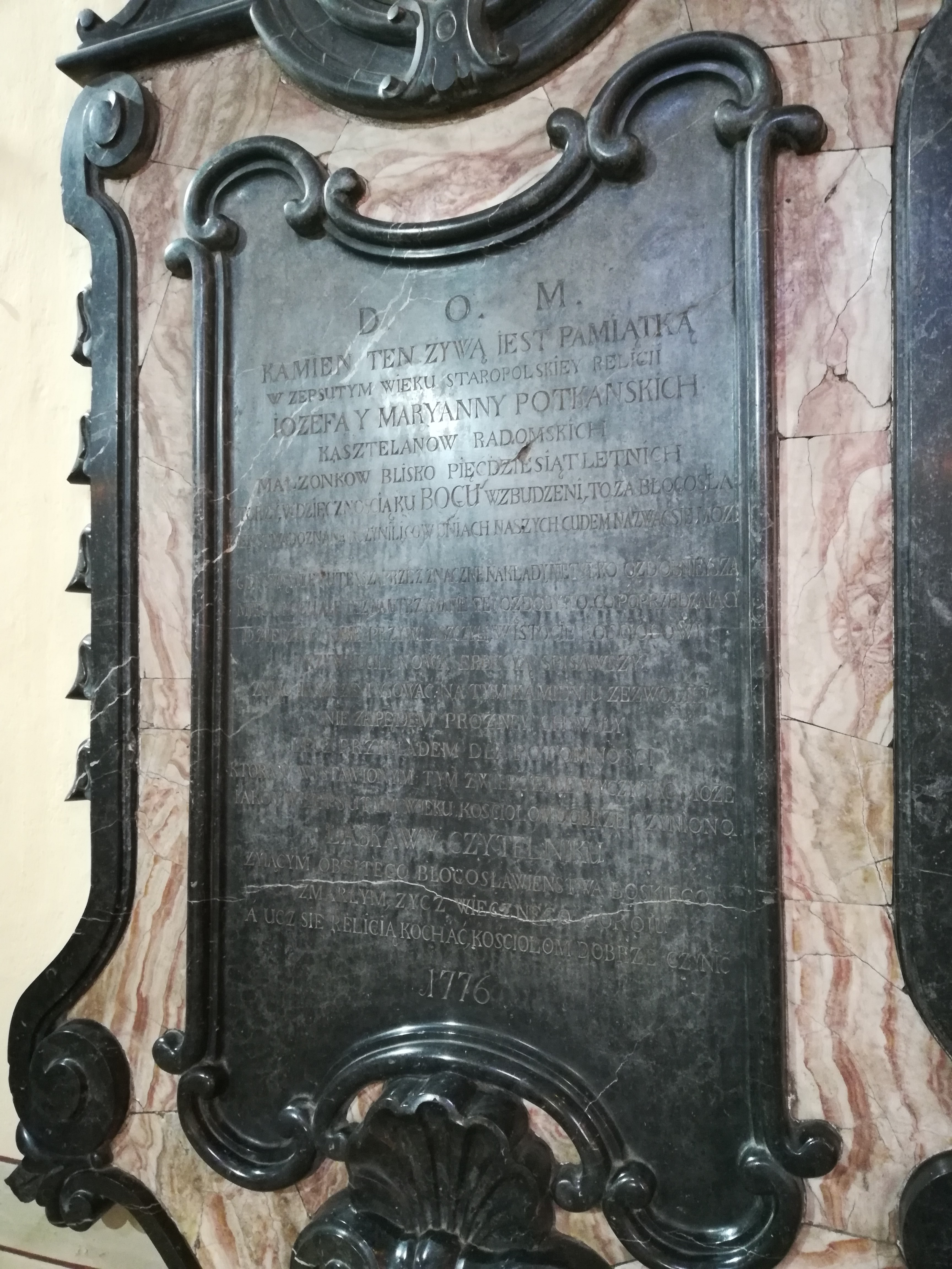 Church of St. Stanisława in Chlewiska - an epitaph of Józef and Marianna Potkański from 1776.